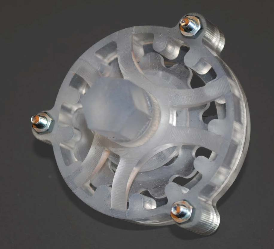 Stereolithography parts assembled, a cycloidal drive.